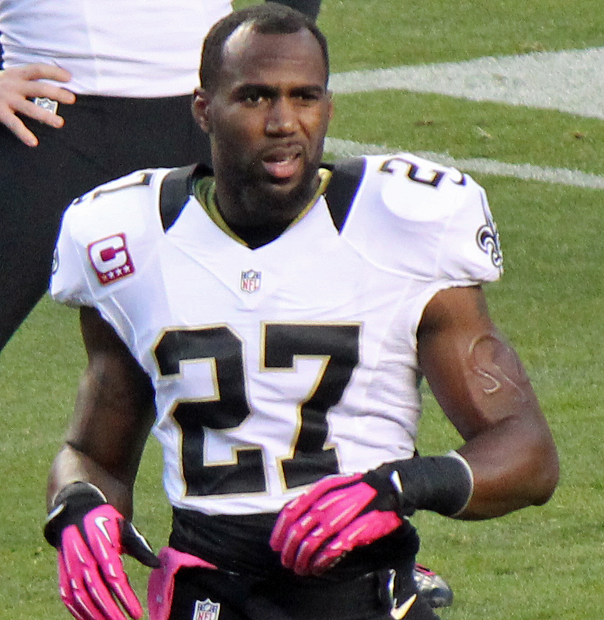 Malcolm Jenkins, a player on the National Football League.